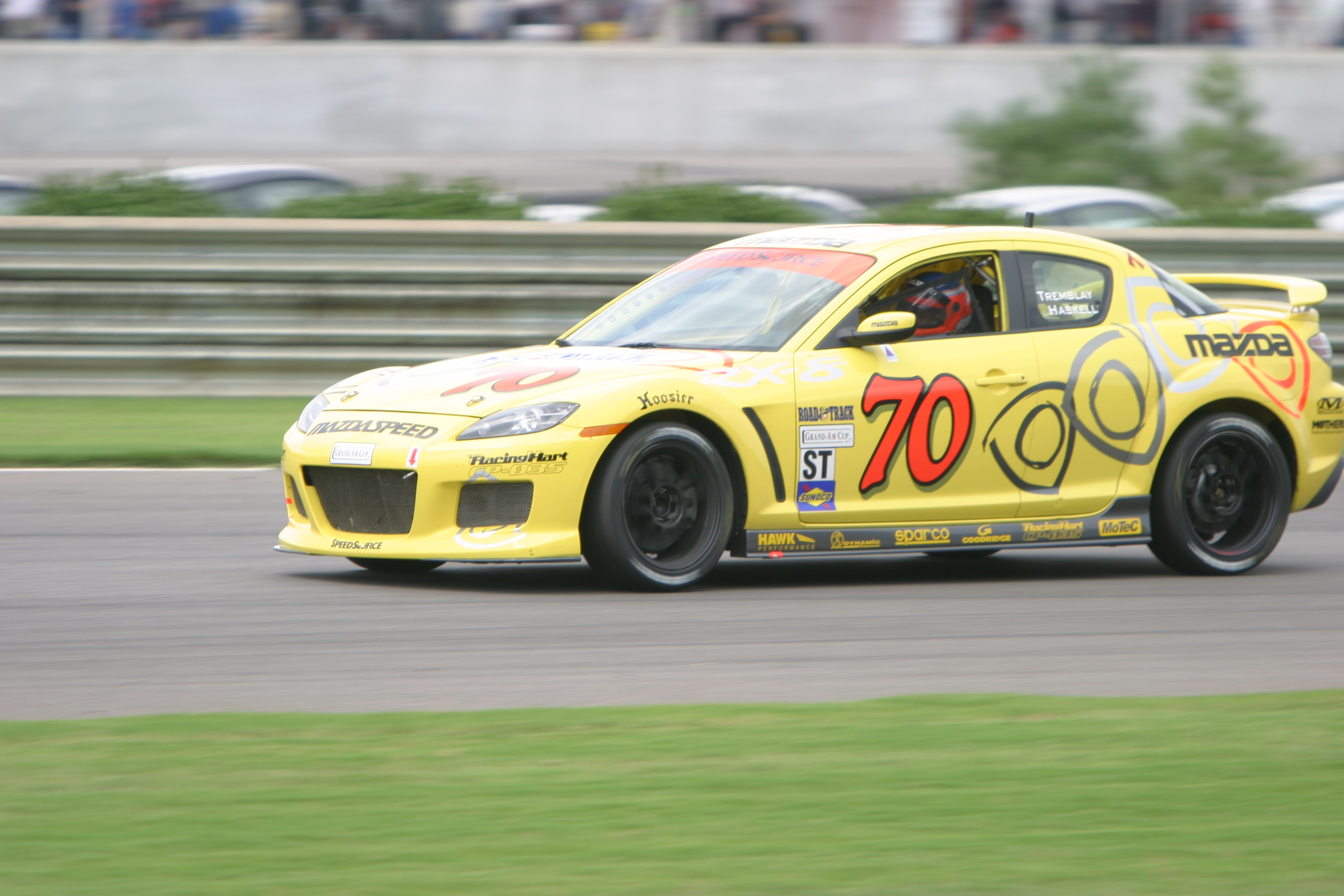 Mazda RX-8 in the Grand-Am Cup race at the 2006 Porsche 250 at Barber Motorsports Park